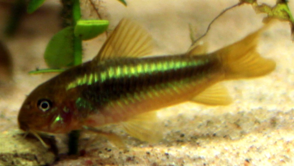 Corydoras sp. CW009 "green laser", aka. green laser cory, Peru green stripe cory